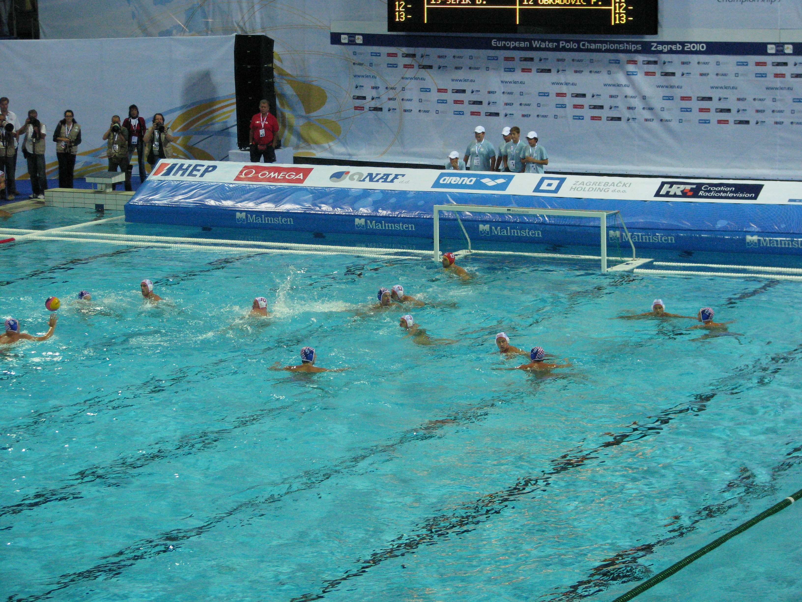 MNE vs CRO on 2010 Men's European Water Polo Championship in Zagreb